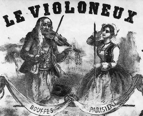 Scene from Le Violoneux, detail from: Jacques Offenbach: Le Violoneux. Cover page of vocal score, published 1855